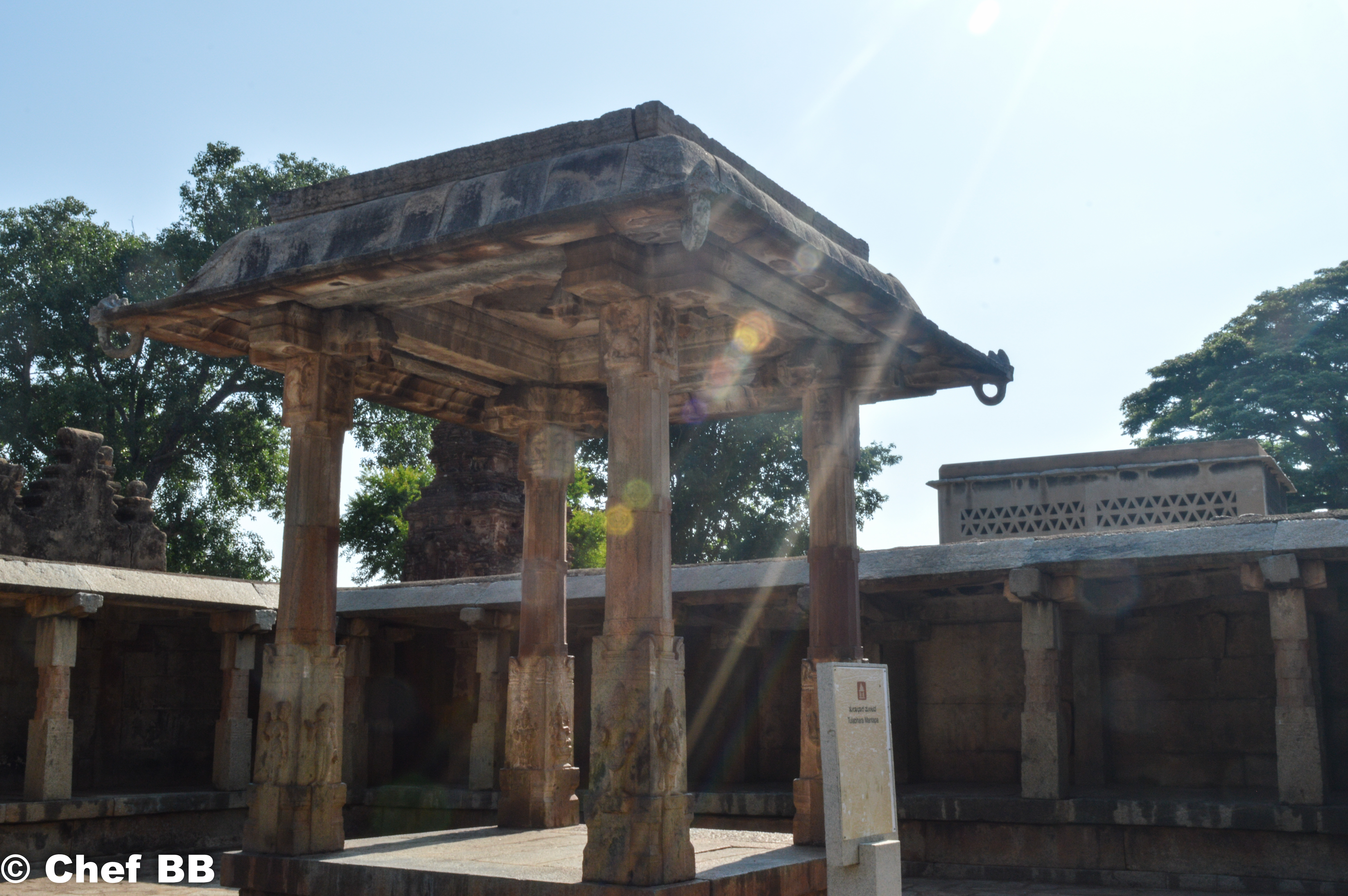 Beautiful View of Tulabhara Mantap